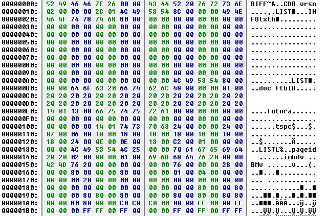 File header of a Corel Draw CDR file written with (probably) version 3